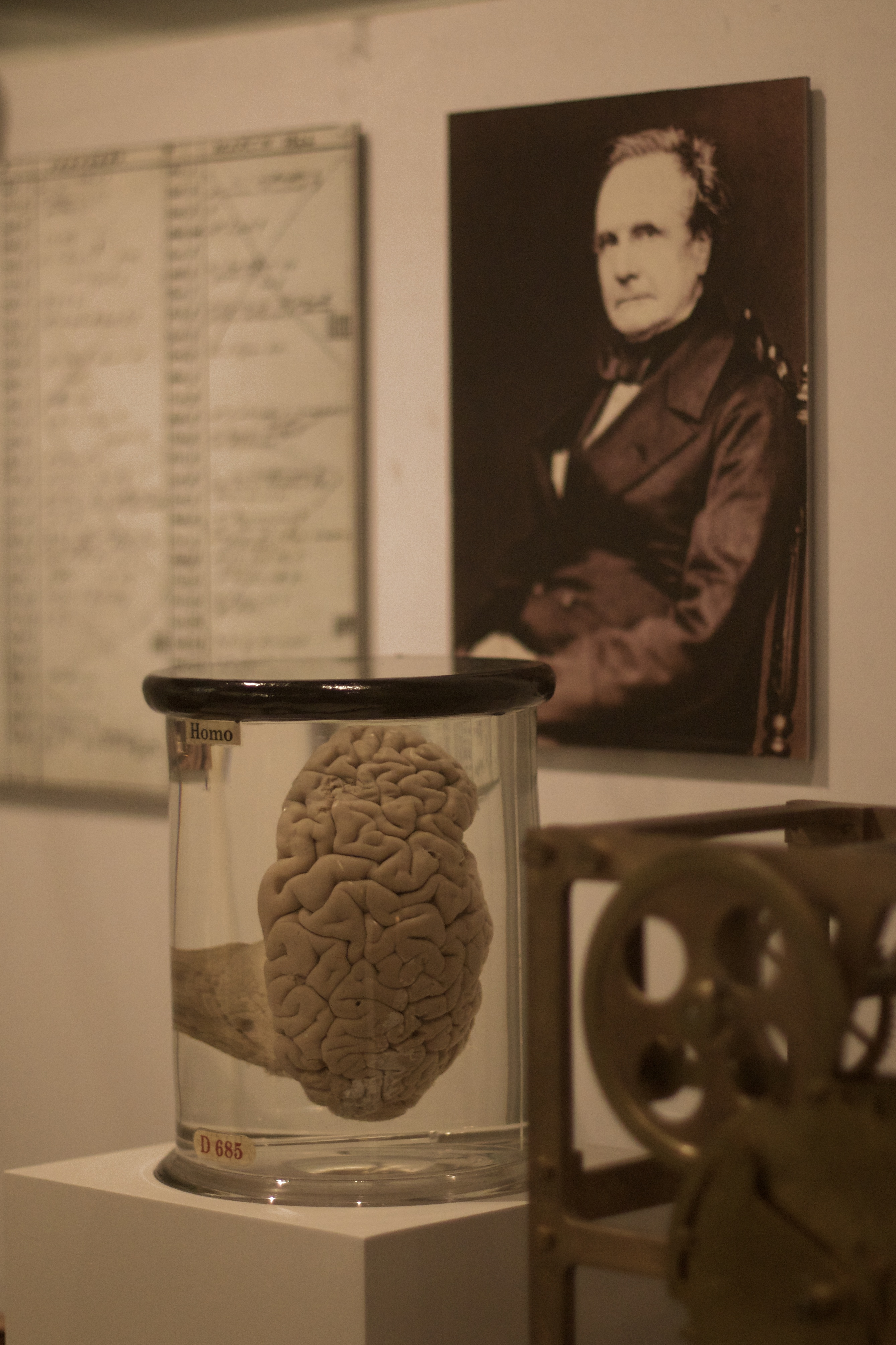 Charles Babbage, father of much of modern computing, is also displayed at the London Museum of Science- that's his brain in the jar